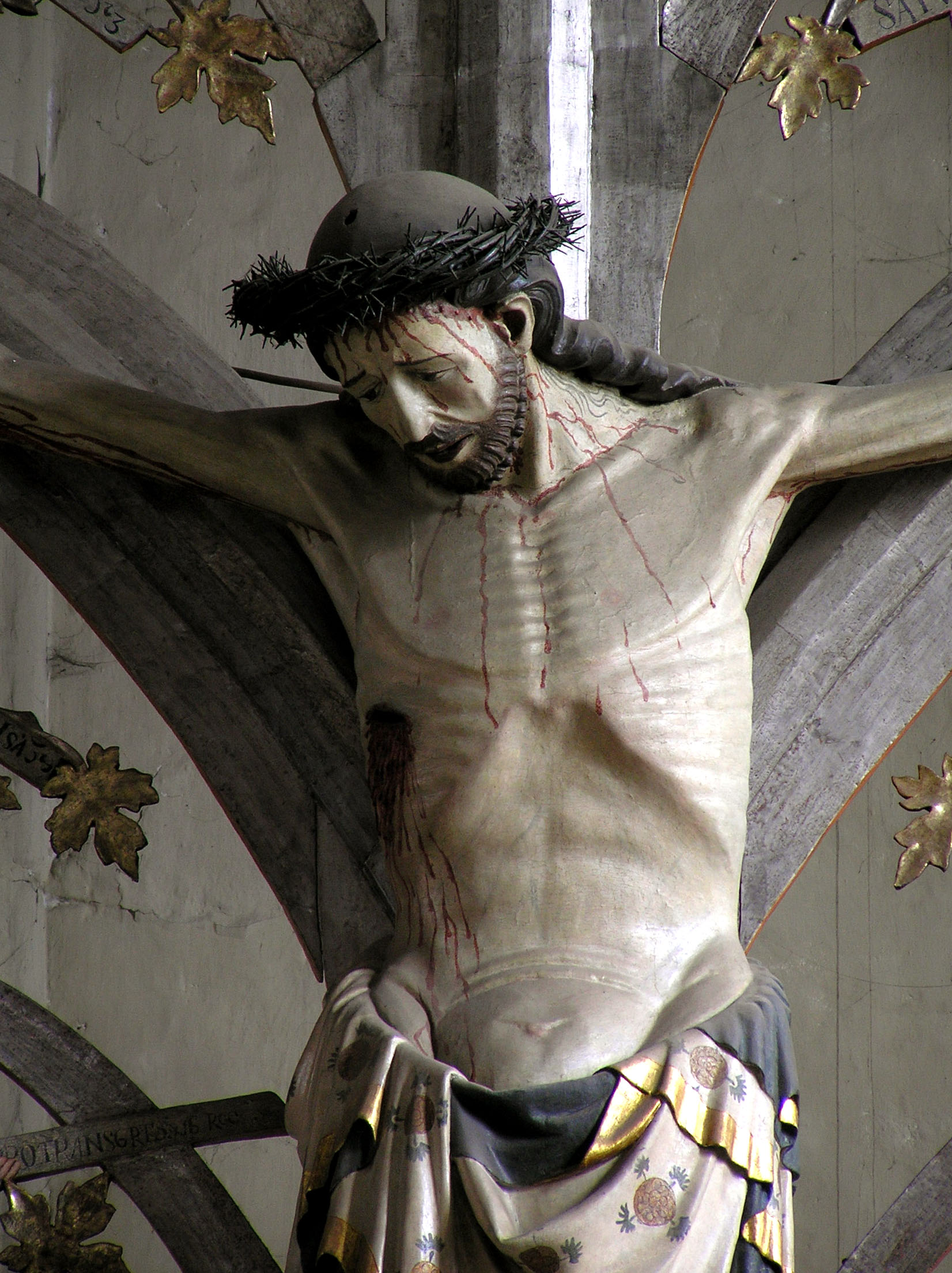 Toruń, St. James church, gothic crucifix, so-called "Mistical Crucufix" from Dominican's church in Toruń (end of 14th cent.). Detail